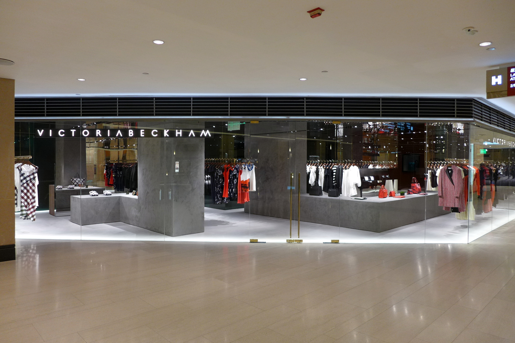 Victoria Beckham in The Landmark Hong Kong